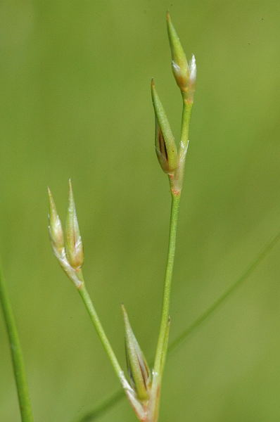 Picture taken in Commanster, Belgian High Ardennes . Species: Juncus bufonius